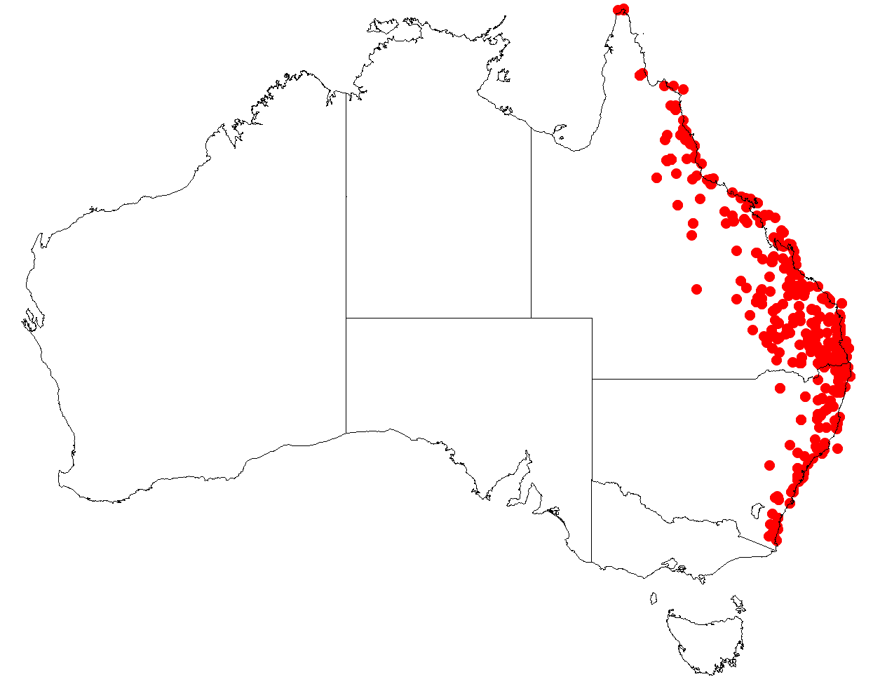 Australian distribution of Amyema congener based on download from Australasian Virtual Herbarium May 9, 2018